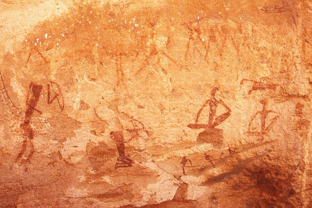 Rock art, Twyfelfontein, Namibia